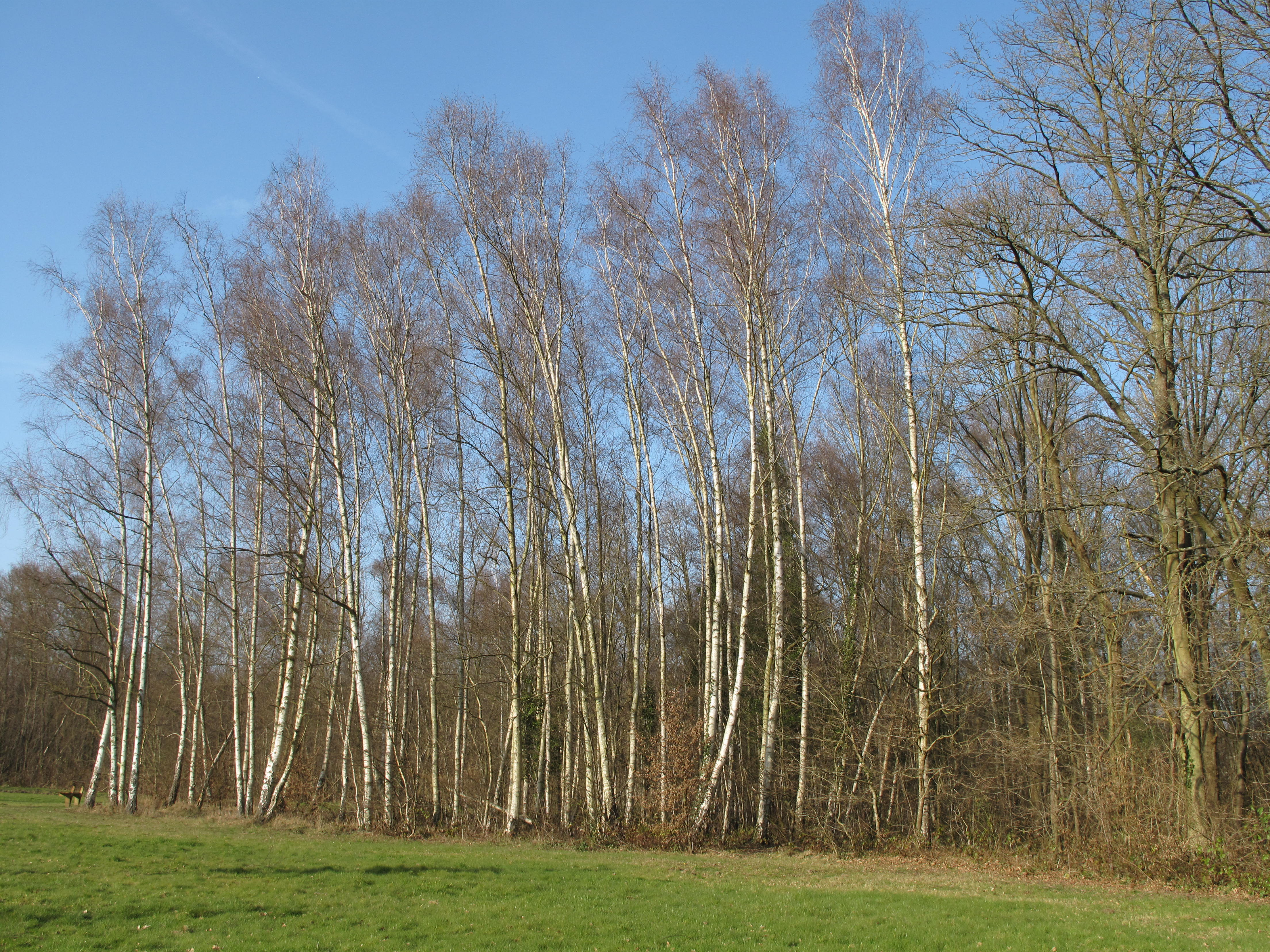 Grove of birches in the wood of Vaires-sur-Marne (Seine-et-Marne, France).